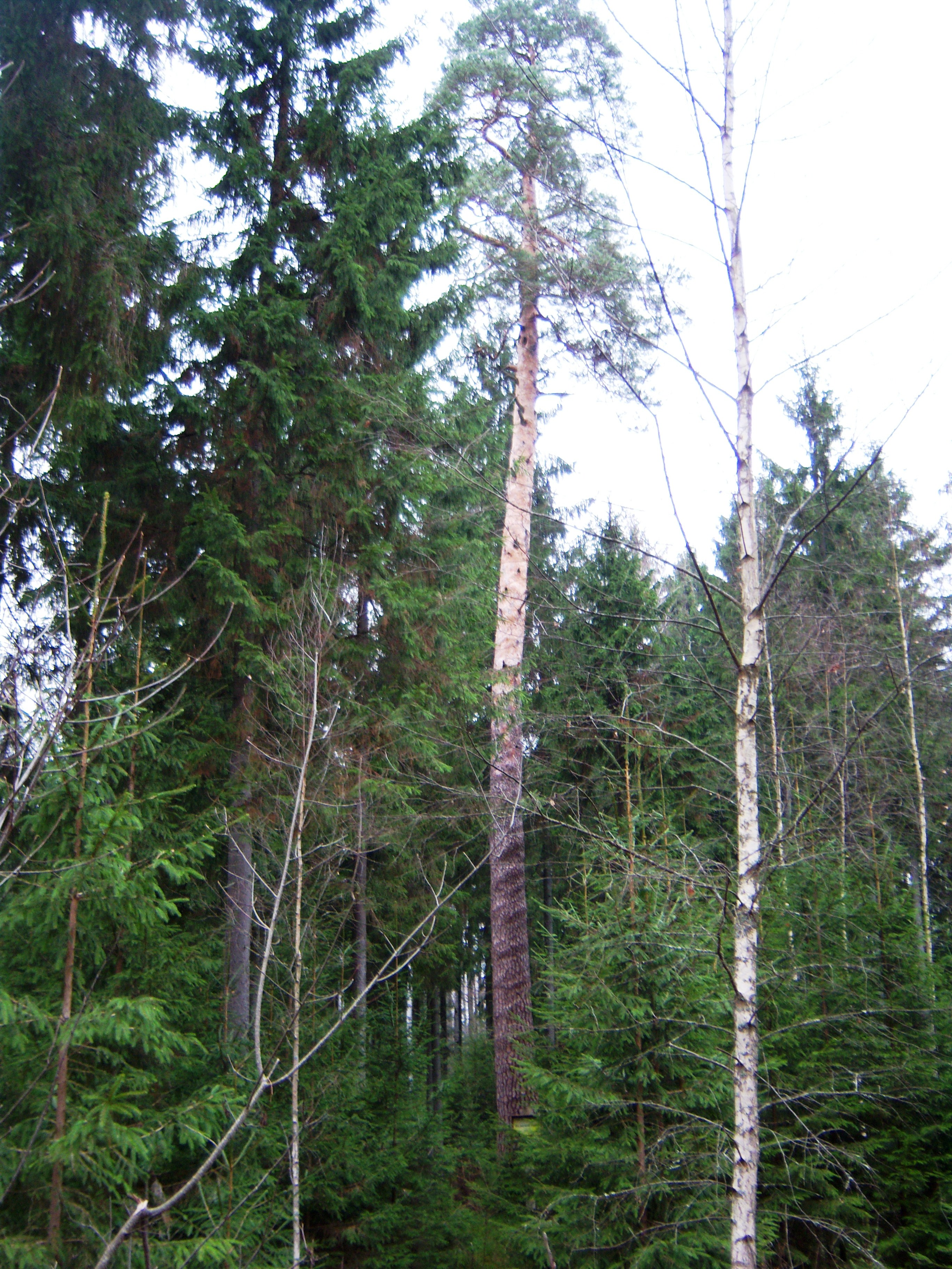 Šilagiris pine tree, Kaunas District, Lithuania